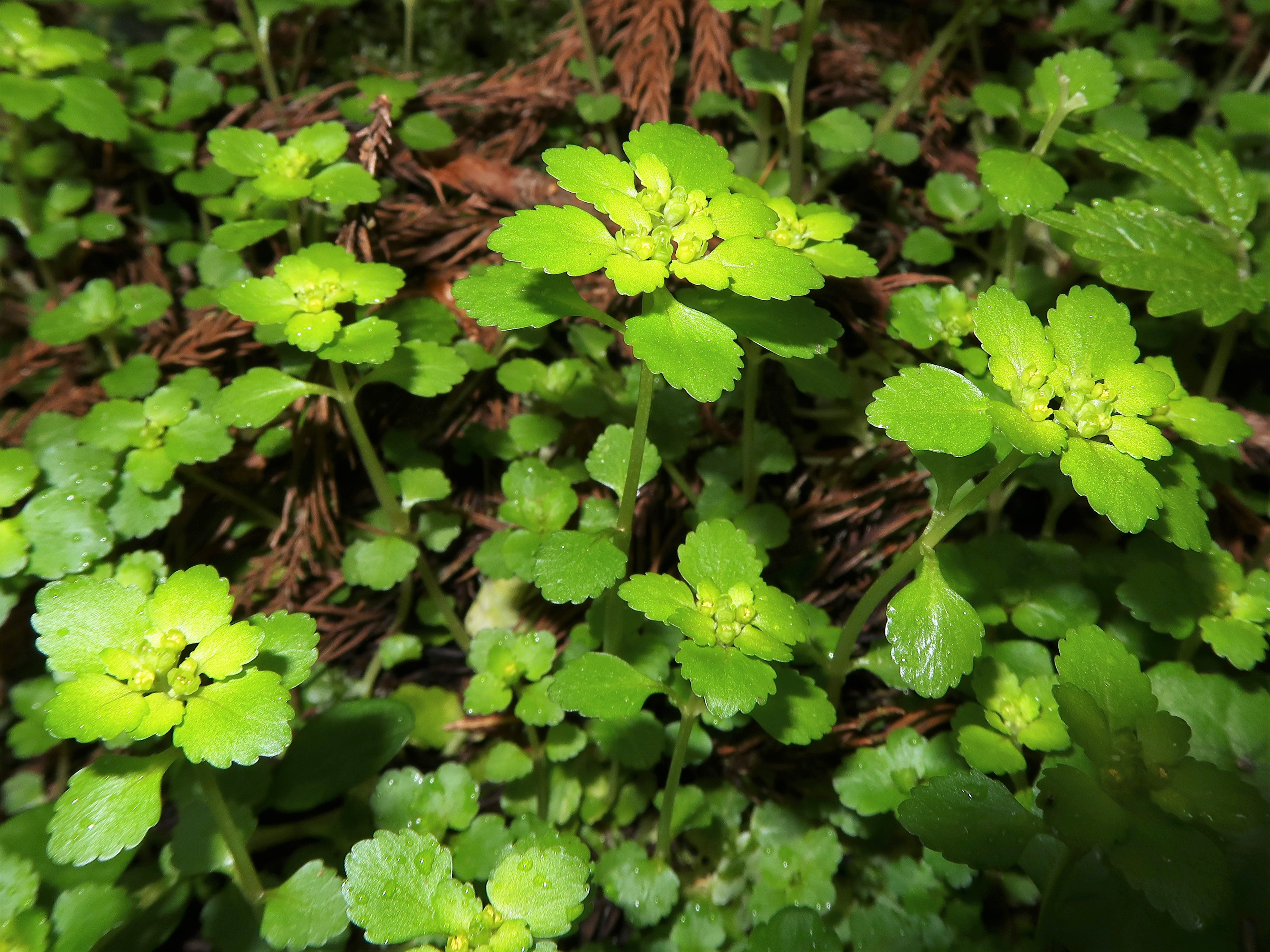 Chrysosplenium grayanum, Gujo-city, Gifu pref., Japan